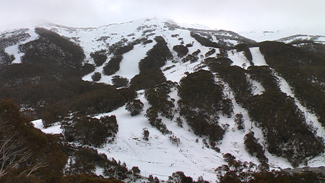 View of Thredbo Ski Resort, Australia. July 2011.